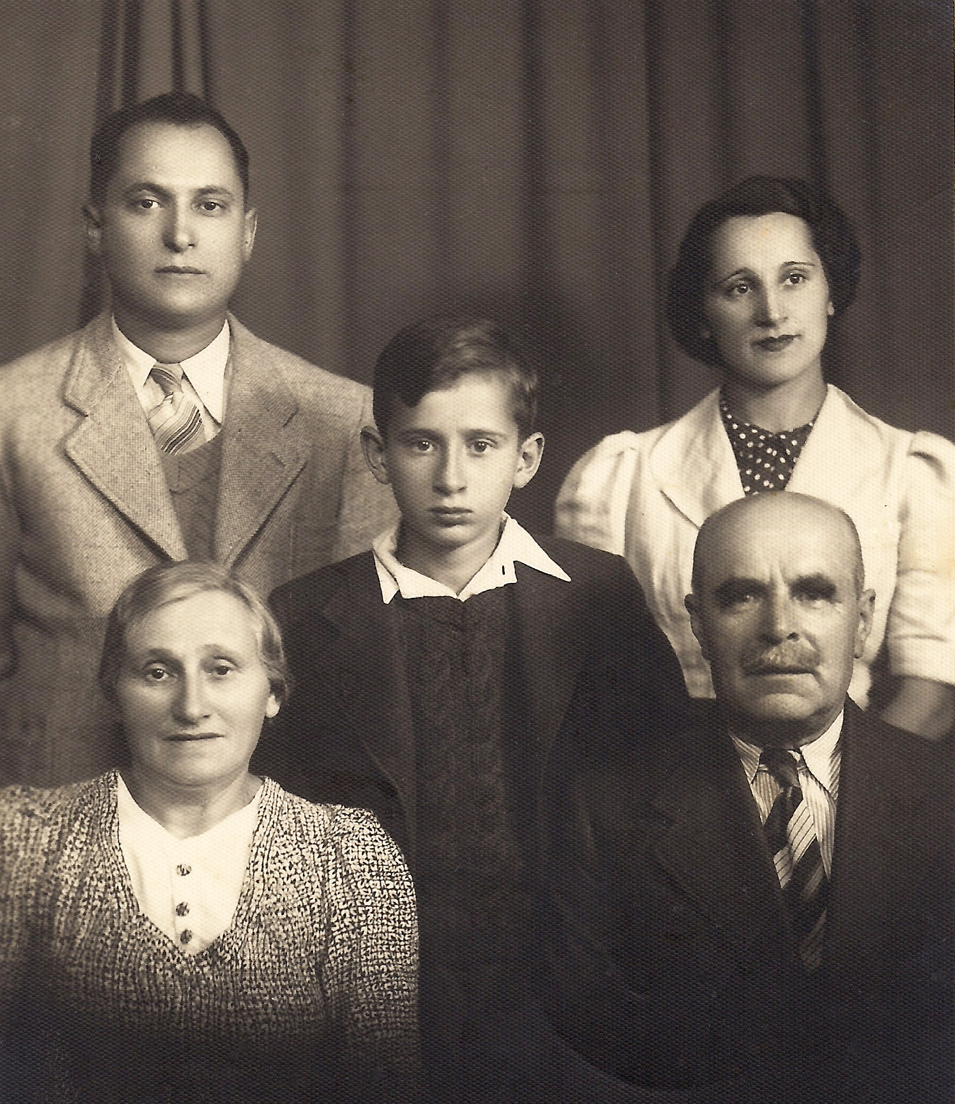 Hebrew teacher Ya'acov Dumblianski with his wife Rivka (née Zelikowski), their daughter Feigel and her husband Gera Kurman, and their youngest son Gershon, Kaunas 1938.